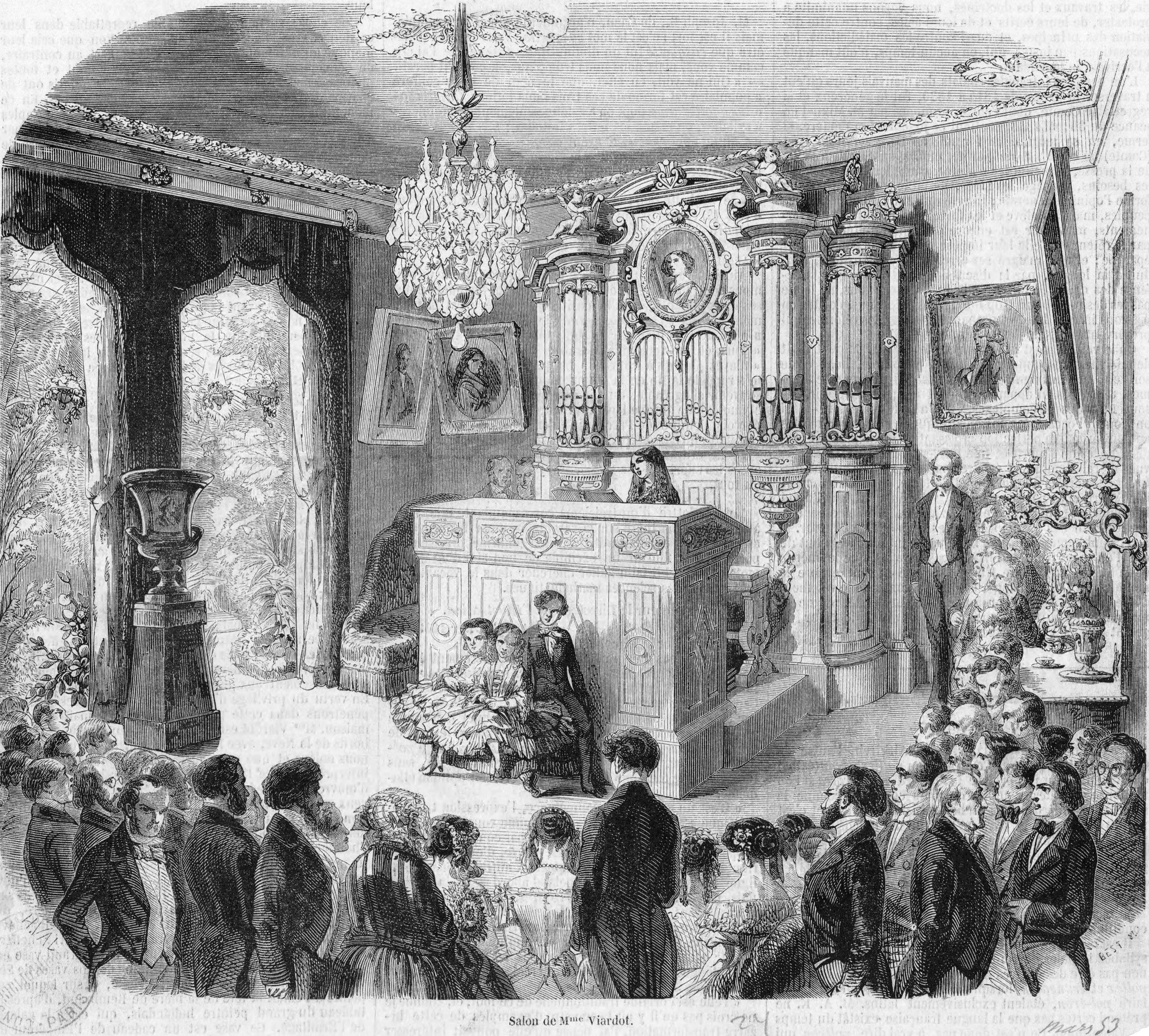 Paris salon of Pauline Viardot (1821–1910), French opera singer, ca. 1853